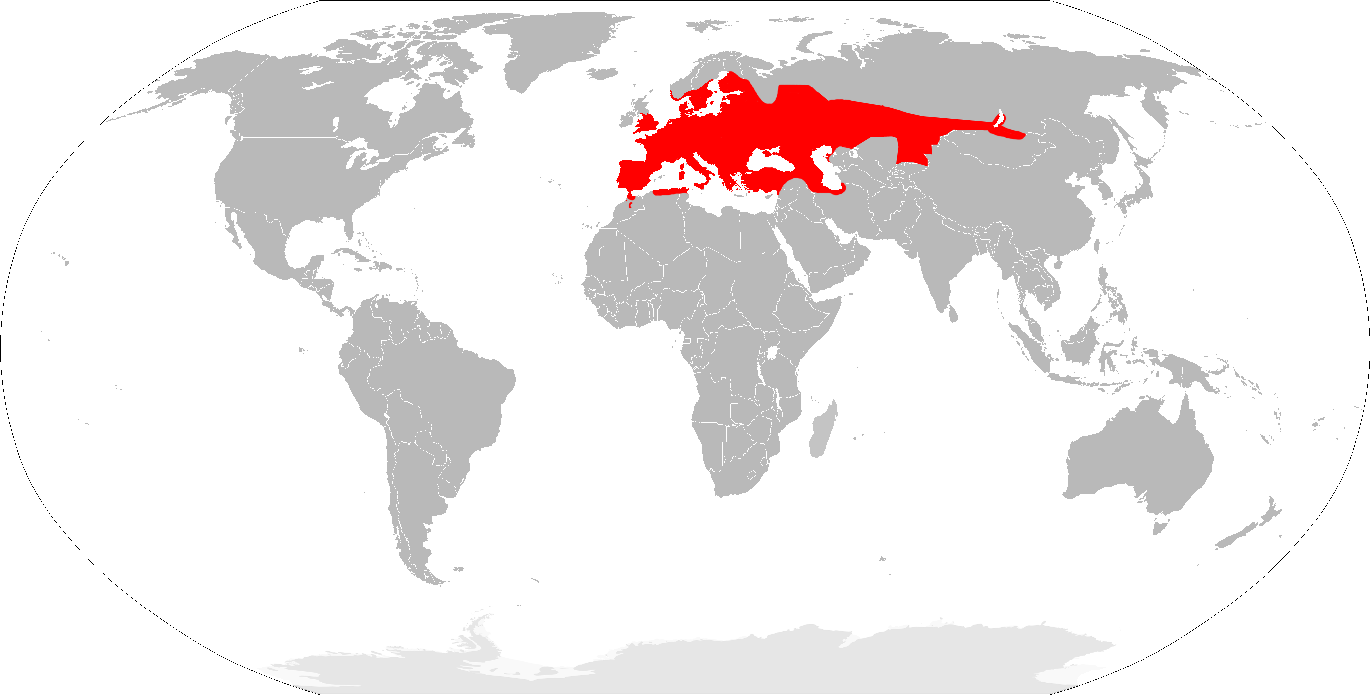 Natrix natrix range map.